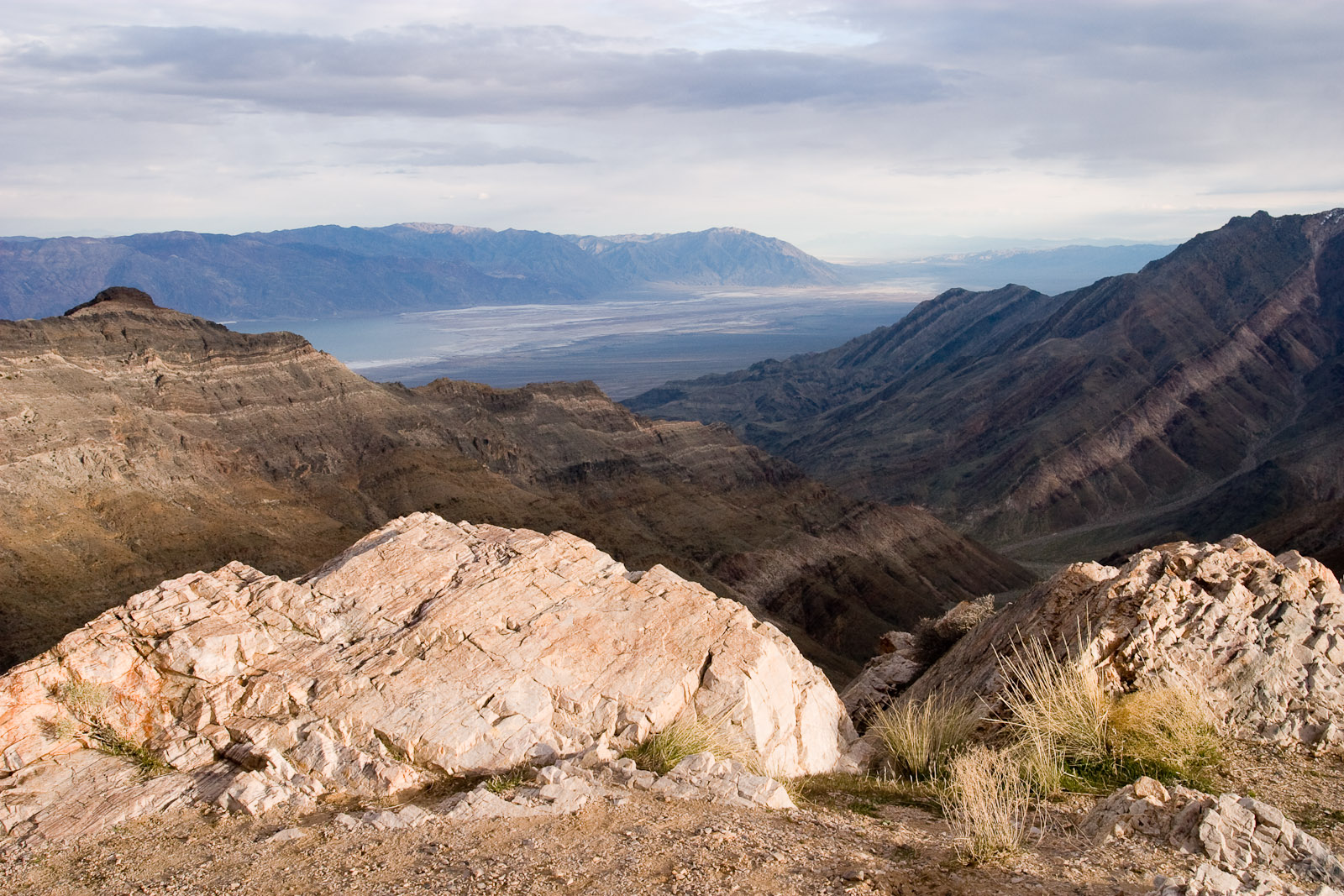 Aguereberry Point - View South